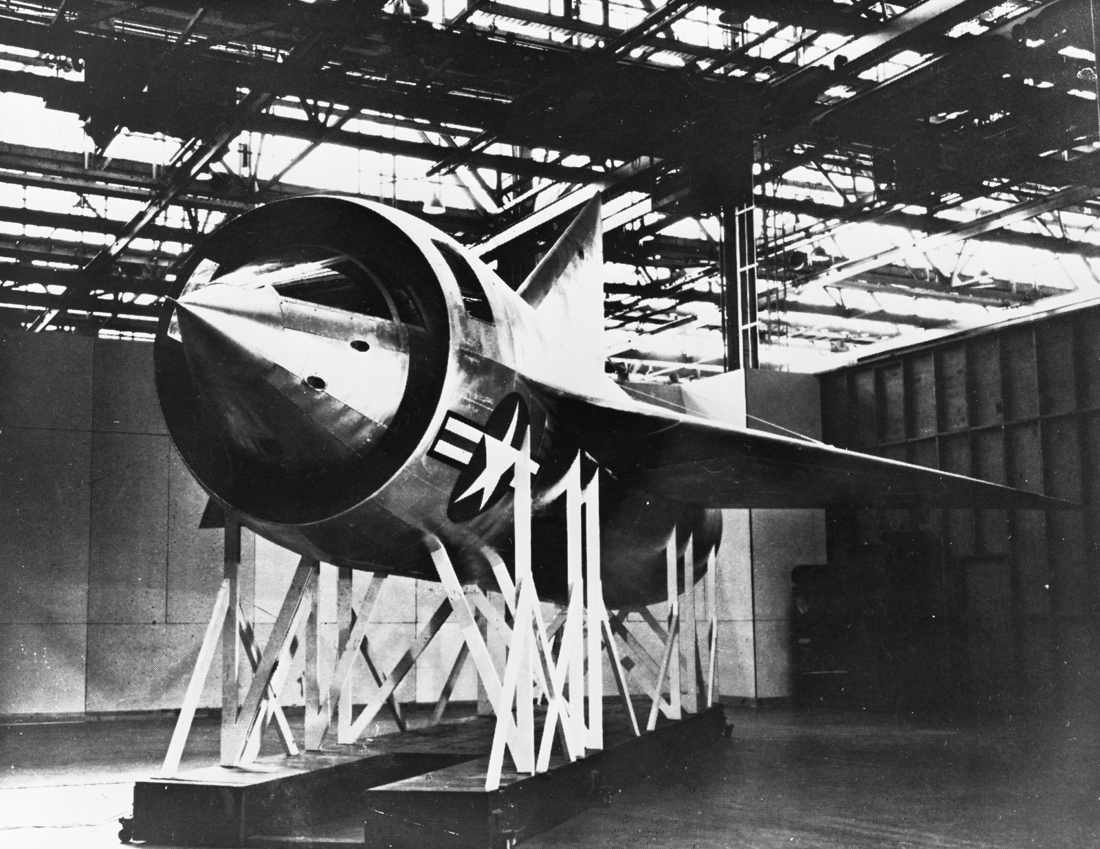 Mockup of the Convair XP-92 fighter aircraft.